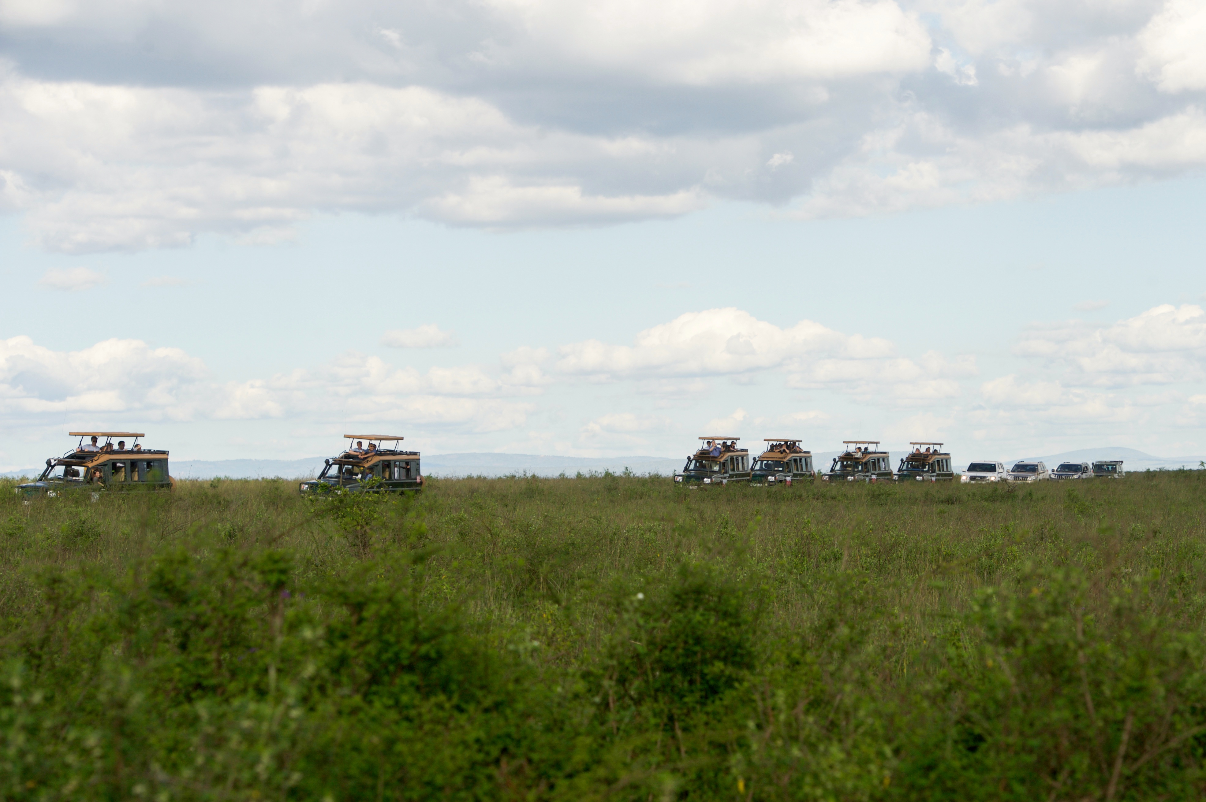 A safari group carrying U.S. Secretary of State John Kerry and government officials through Nairobi National Park in Nairobi, Kenya, on May 3, 2015, as seen during a wildlife tour and before the group visited the Sheldrick Elephant Orphanage in advance of a series of government meetings. [State Department Photo/Public Domain]